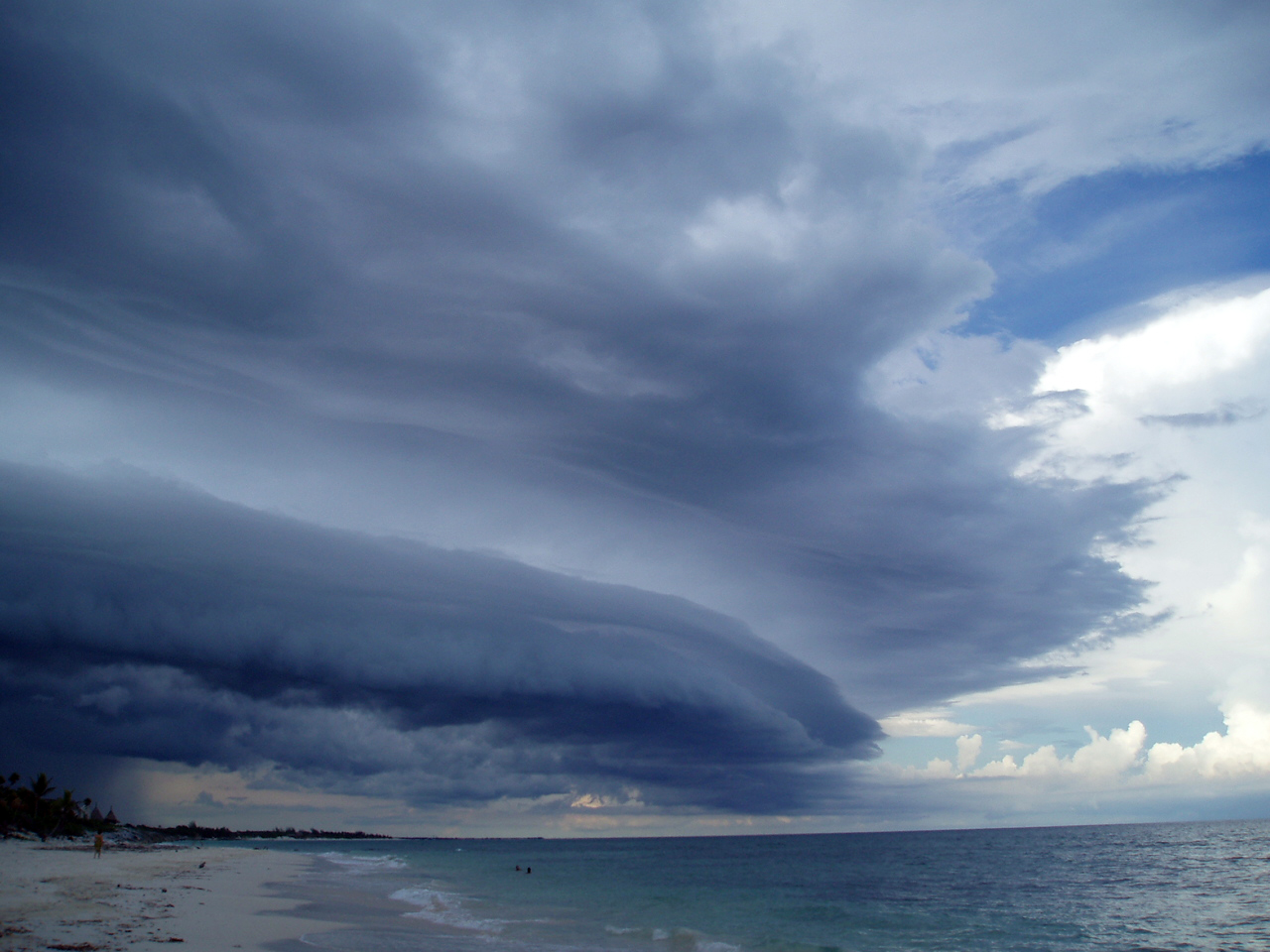 Cloud over the Yucatan east coast (Mexico)